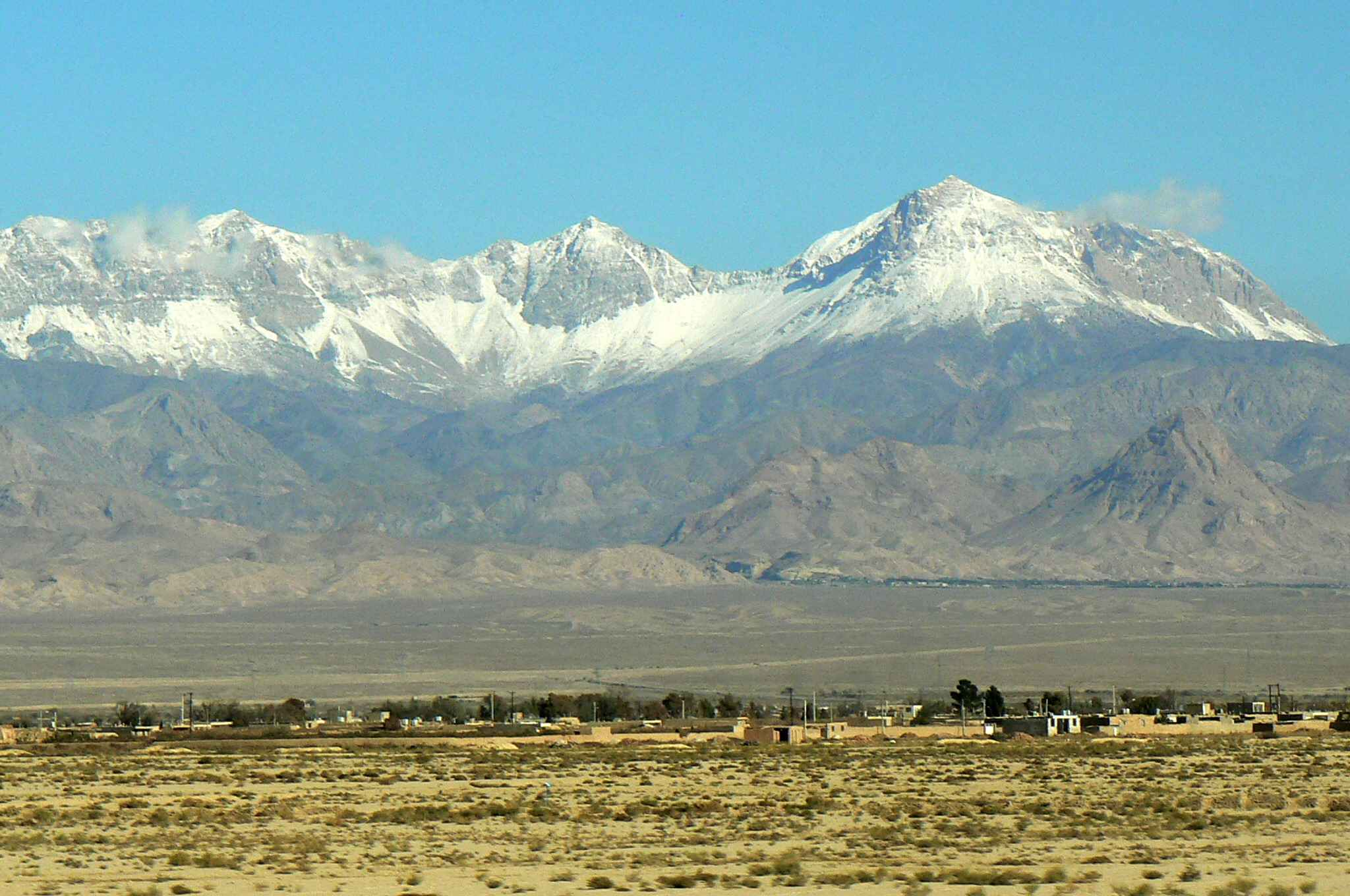 Alborz Mountains in Semnan Province, view south-north, the photo is taken from inside a train.